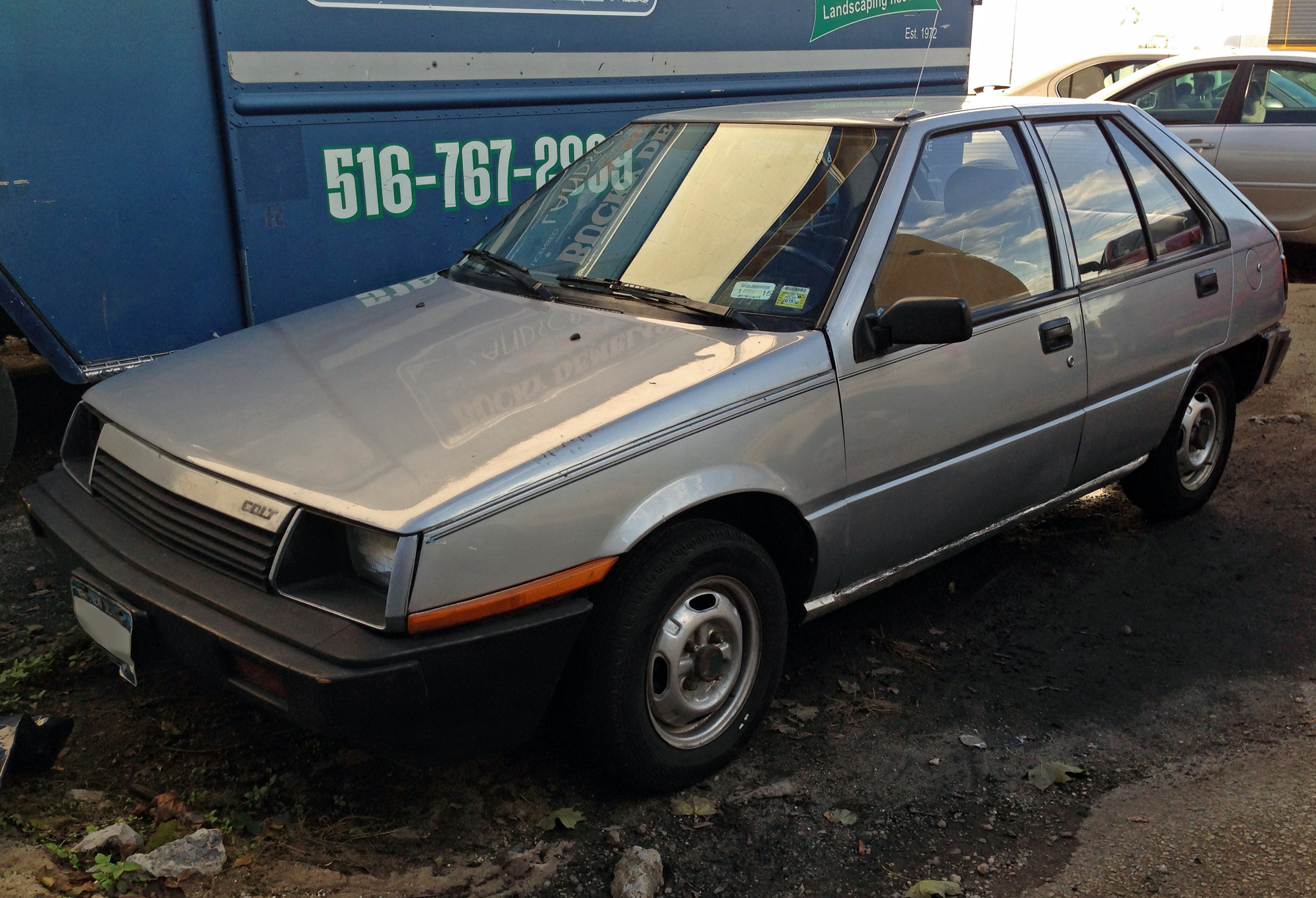 A 1985 Dodge Colt E five-door hatchback. Rare to see an early one like this in any condition. The usual 1.5 liter four-banger.